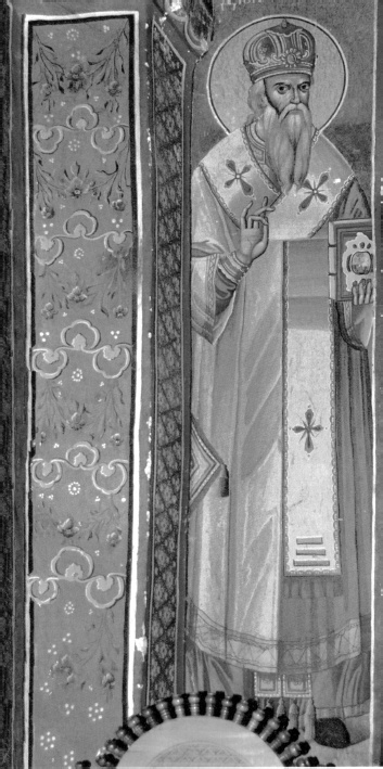 Narthex of Hilandar main church - Saint Nephon Fresco by Zaharias Galatsianos